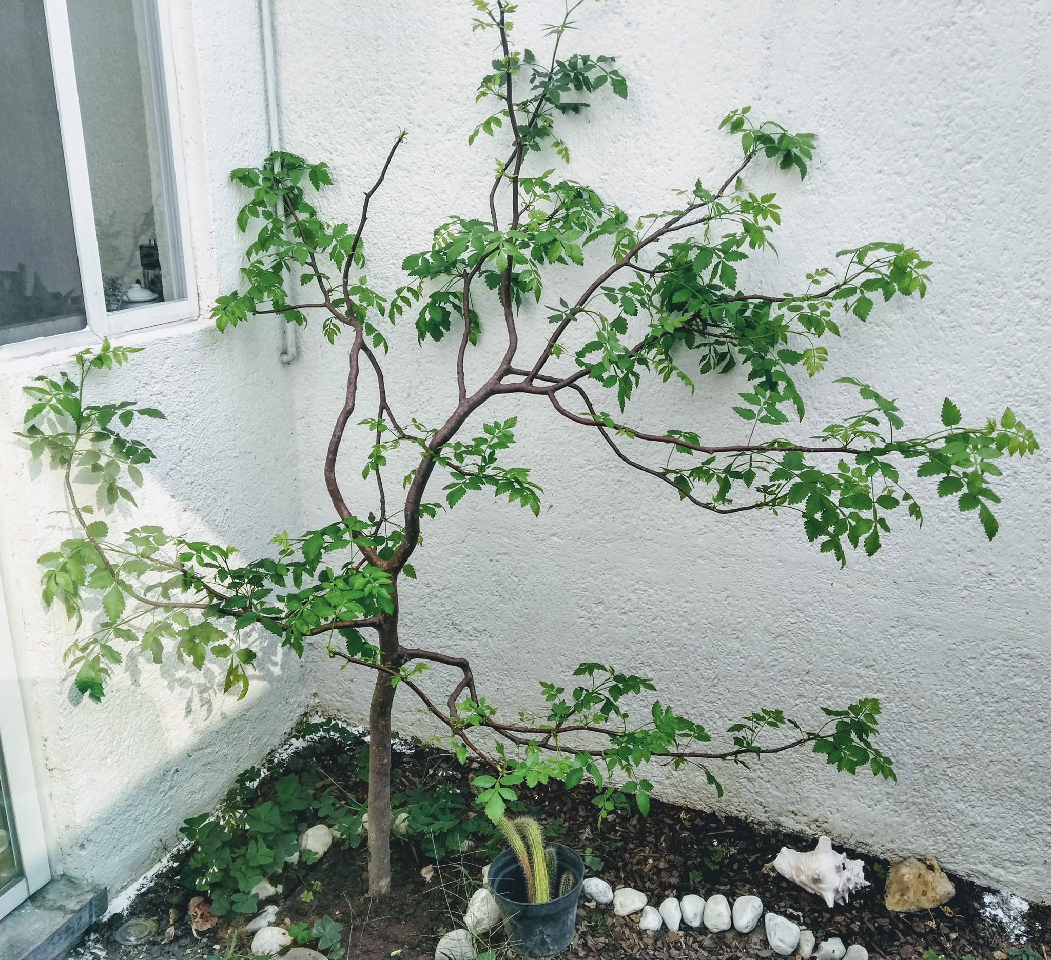 Linaloe tree (Bursera linanoe), highly prized in Mexico for its aroma. Puebla, México, 2019